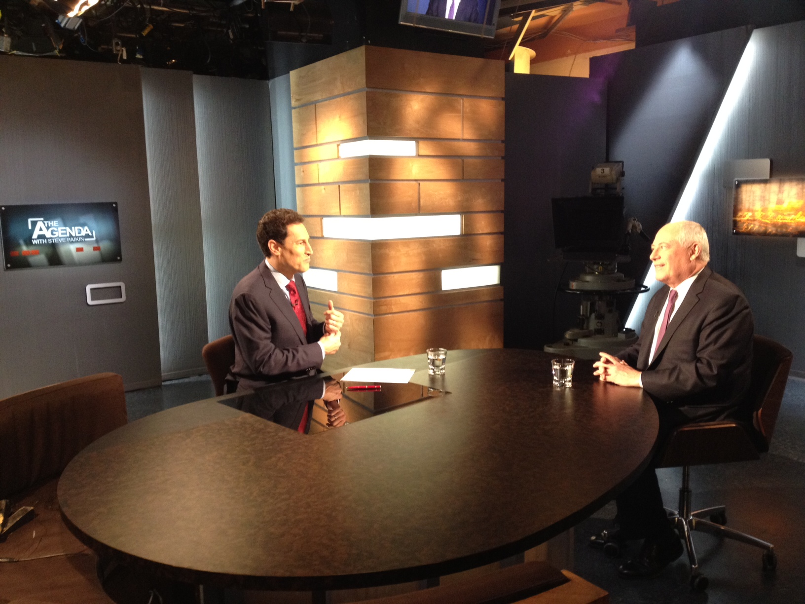 Illinois Governor Pat Quinn is interviewed on TVO by The Agenda’s Steve Paikin. The discussion ranged from sports, Great Lakes issues, to sharing a name with another Pat Quinn - the hockey legend.